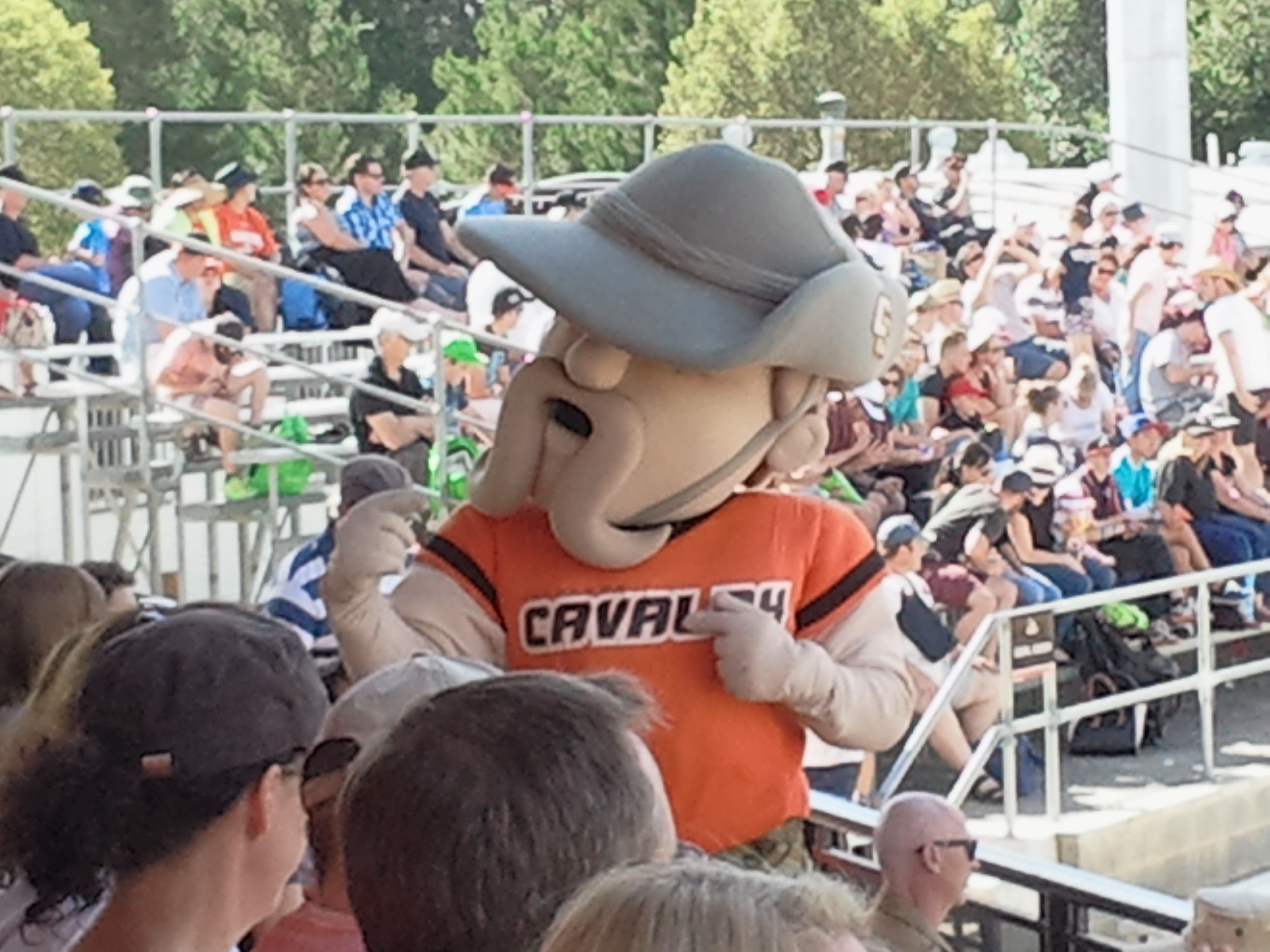 Canberra Cavalry mascot, Sarge, geeing up the crowd at Narrabundah Ballpark.